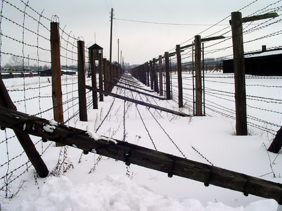 Majdanek in the winter